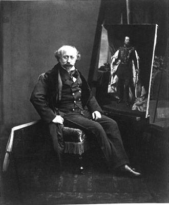 Portrait of the painter Nicolaas Pieneman standing in front of the portrait of King Willem III.